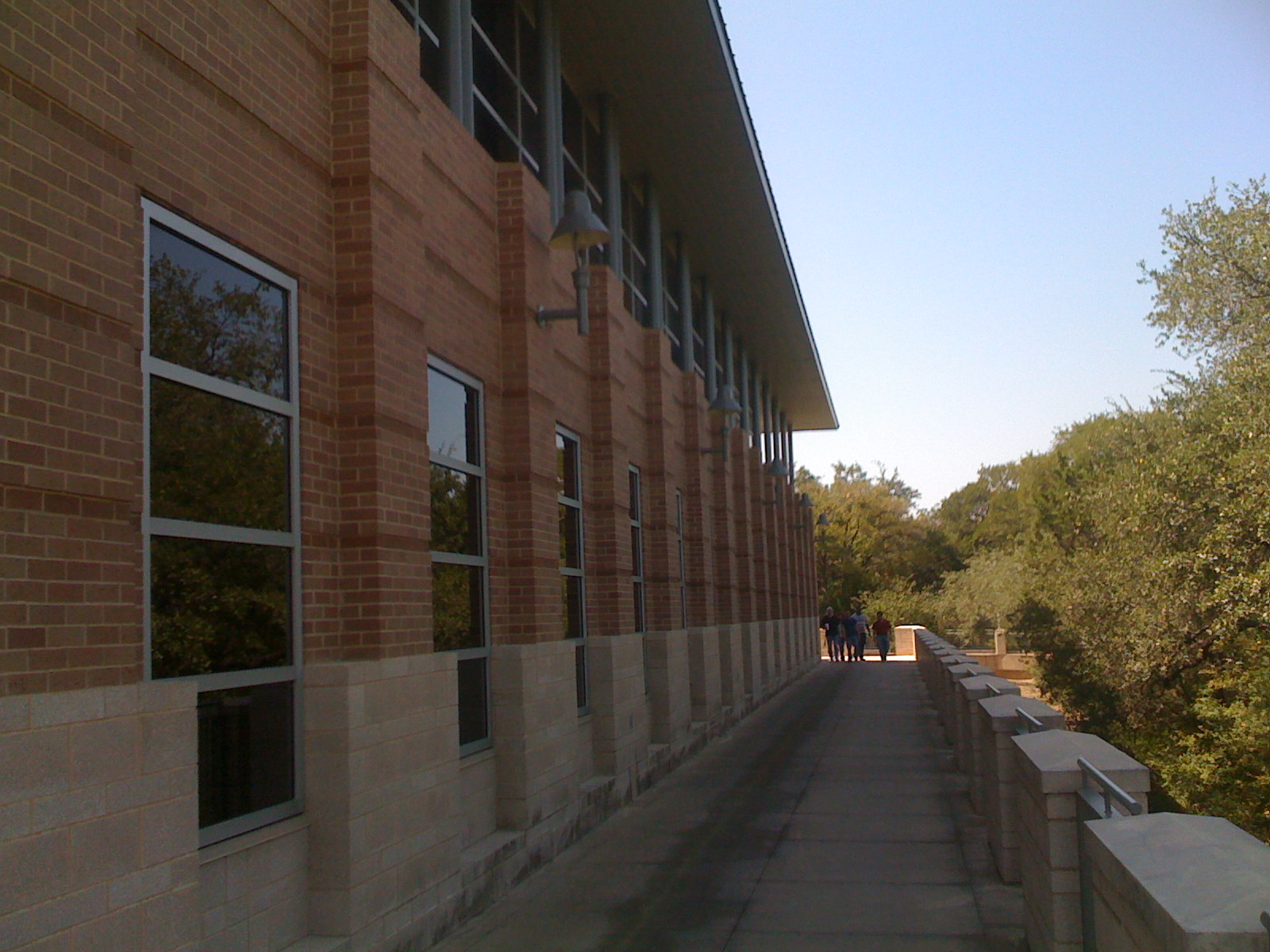 Huisache Hall, Northwest Vista College, Texas